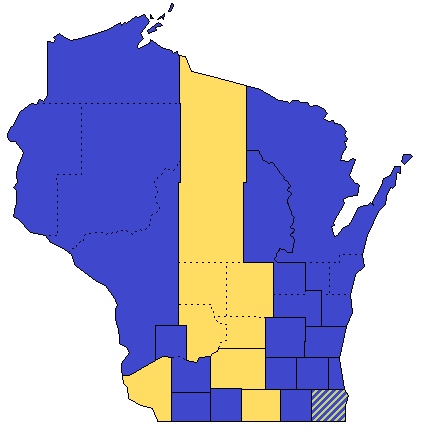 Map of the partisan makeup of the Wisconsin Senate in 1849 Democratic: 14 seats Free Soil: 1 seat Whig: 4 seats